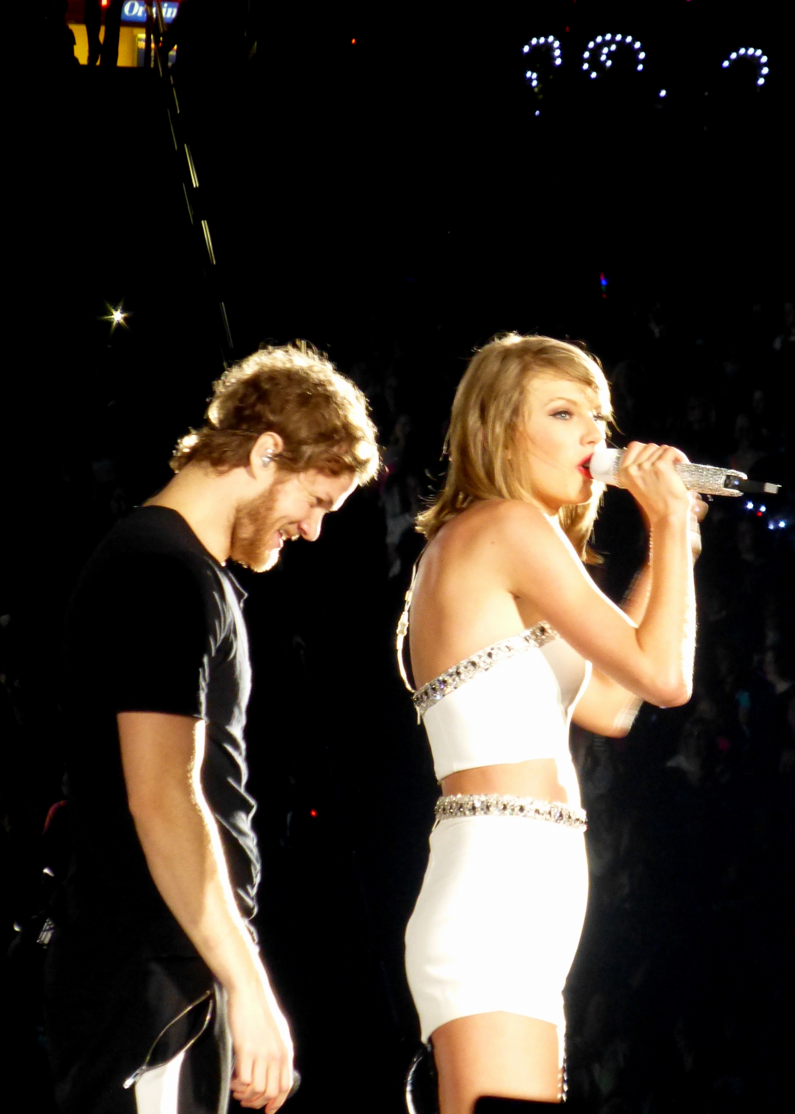 Dan Williams of Imagine Dragons makes an appearance. Hmm, what's he looking at? Taylor Swift 1989 Tour at Ford Field in Detroit, 5/30/15